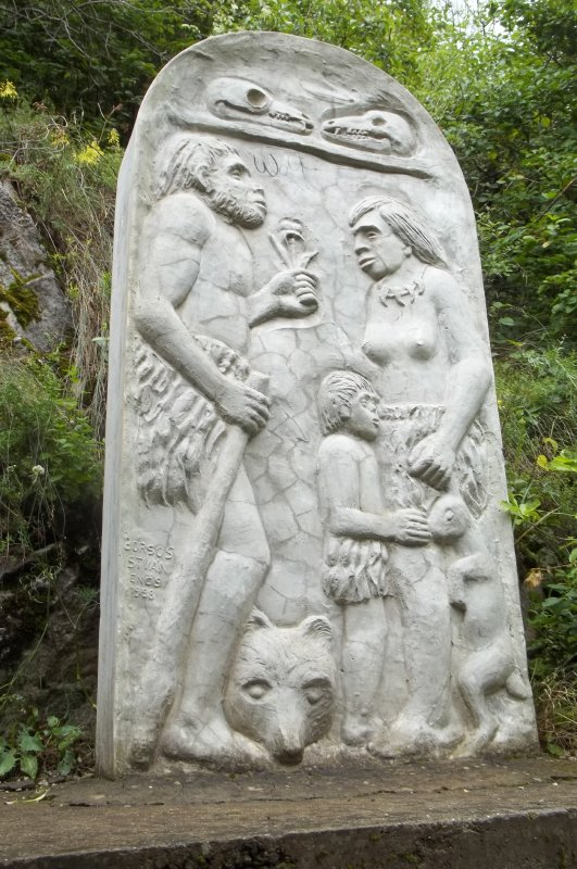 Memorial at the Suba-lyuk Cave, Bükk Mountains, Hungary